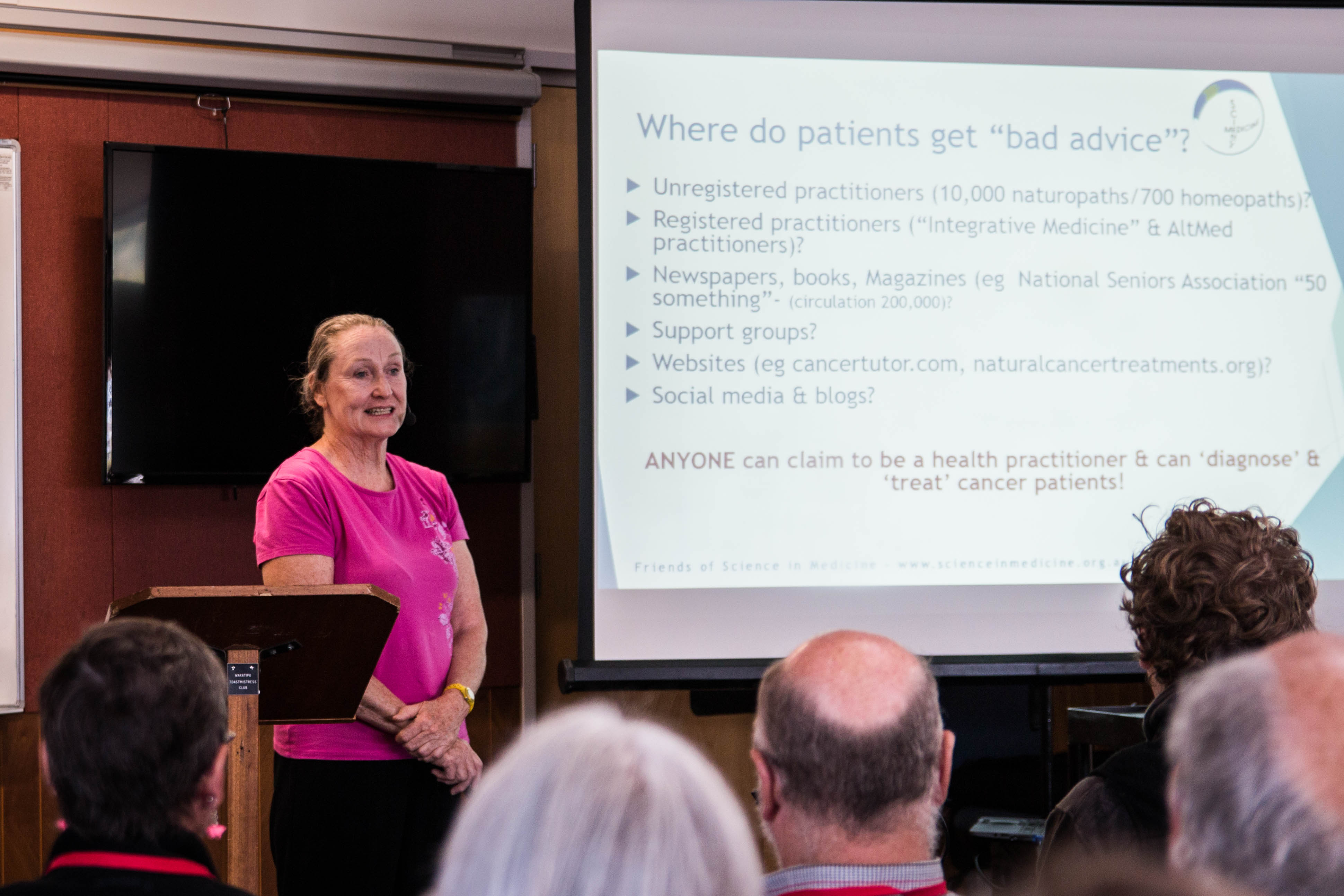 Loretta Marron speaking at NZ Skeptics Conference 2016